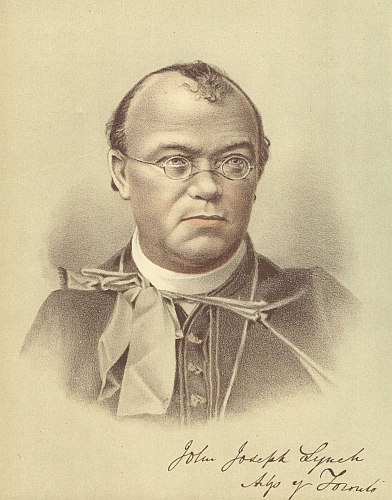 Rev. John Joseph Lynch